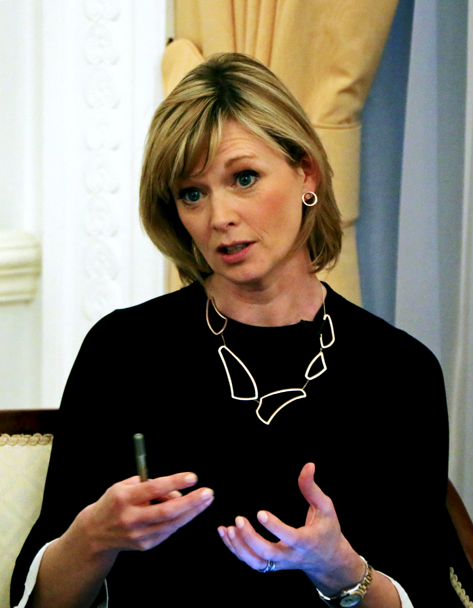 Julie Etchingham at the Embassy Talk Series: W20 - Pathways to Achievement: Women in Business, Politics and Society